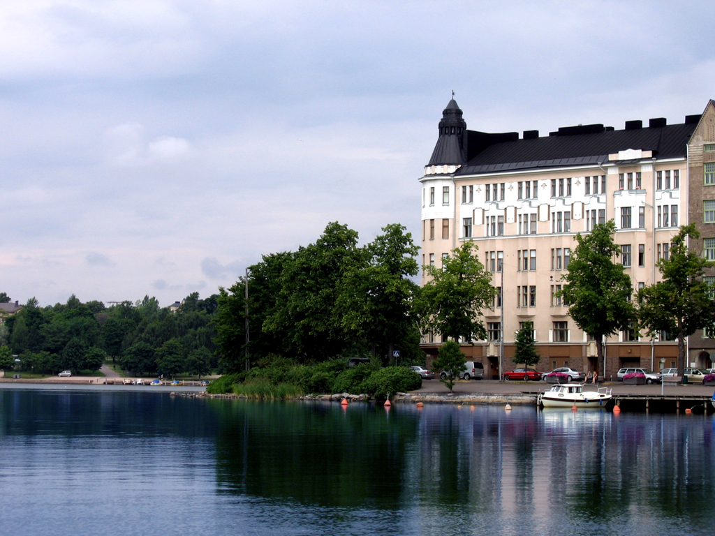 View across Kaisaniemenlahti and Eläintarhanlahti in Helsinki, Finland